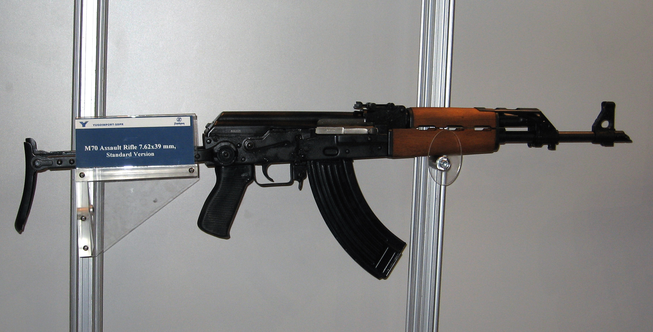 Zastava M70 Assault Rifle 7.62×39 mm